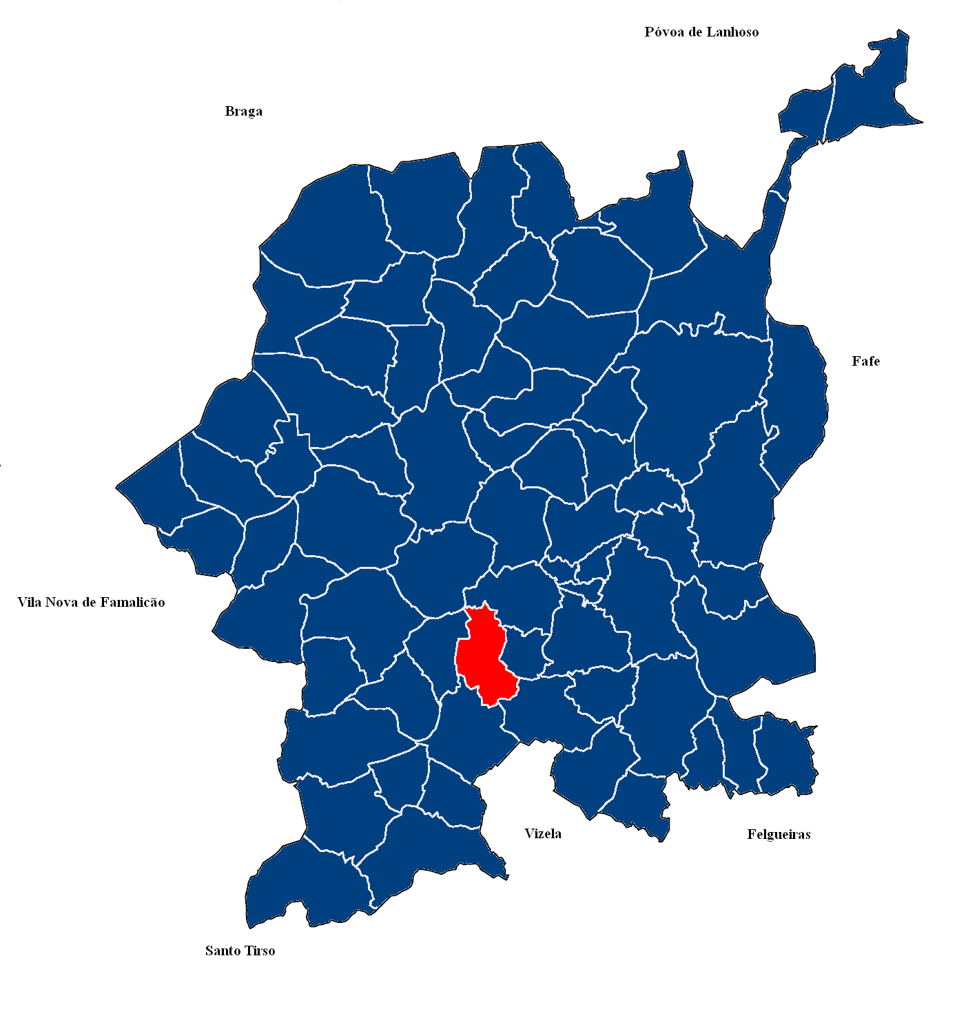 Map of Santiago de Candoso parish, Guimarães Municipality, Portugal